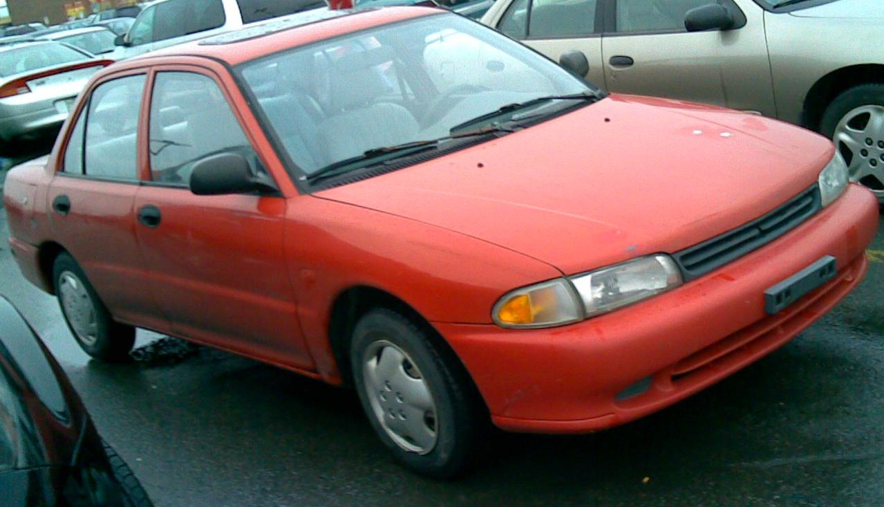 1992-1994 Plymouth Colt photographed in Montreal, Quebec, Canada.